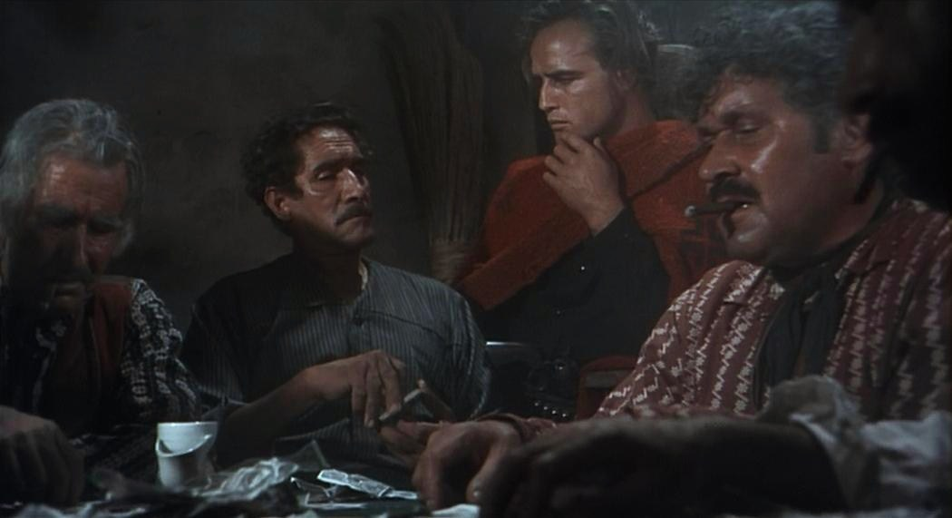 Marlon Brandon & Nacho Galindo (right) in One-Eyed Jacks - cropped screenshot